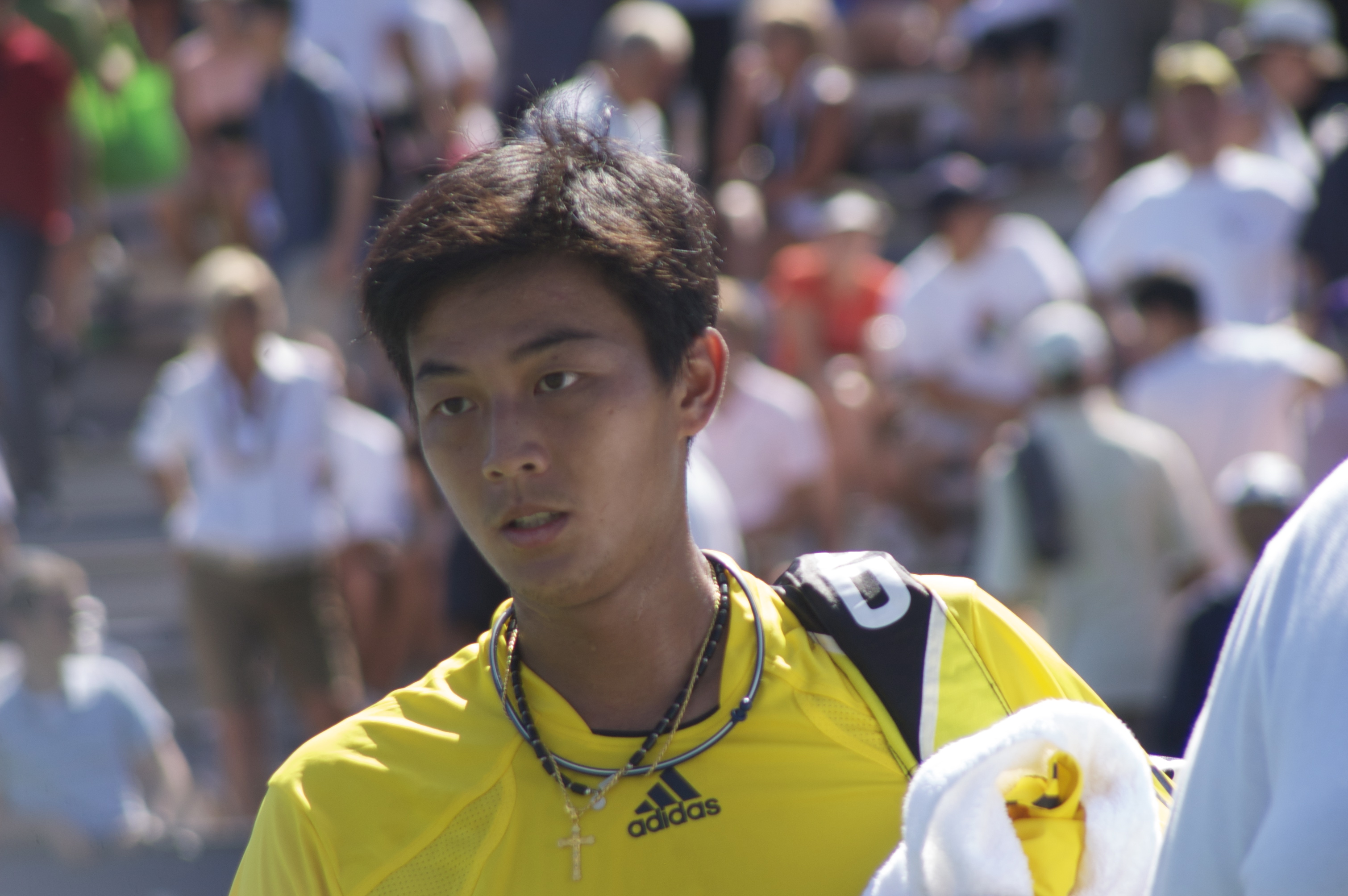 Lu Yen-hsun at the 2008 U.S. Open - Men's SinglesBân-lâm-gú: Lôo Giān-hun tī 2008-nî Bí-kok Bāng-kiû Kong-khai-sài ê lâm-tsú tan-tá pí-sài. 盧彥勳佇2008年美國網球公開賽的男子單打比賽。